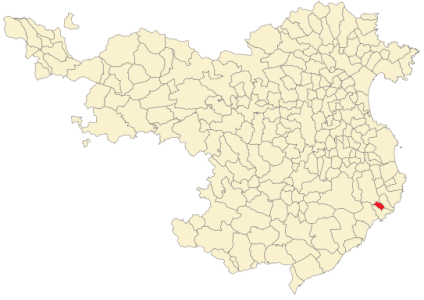 Vall-llobrega